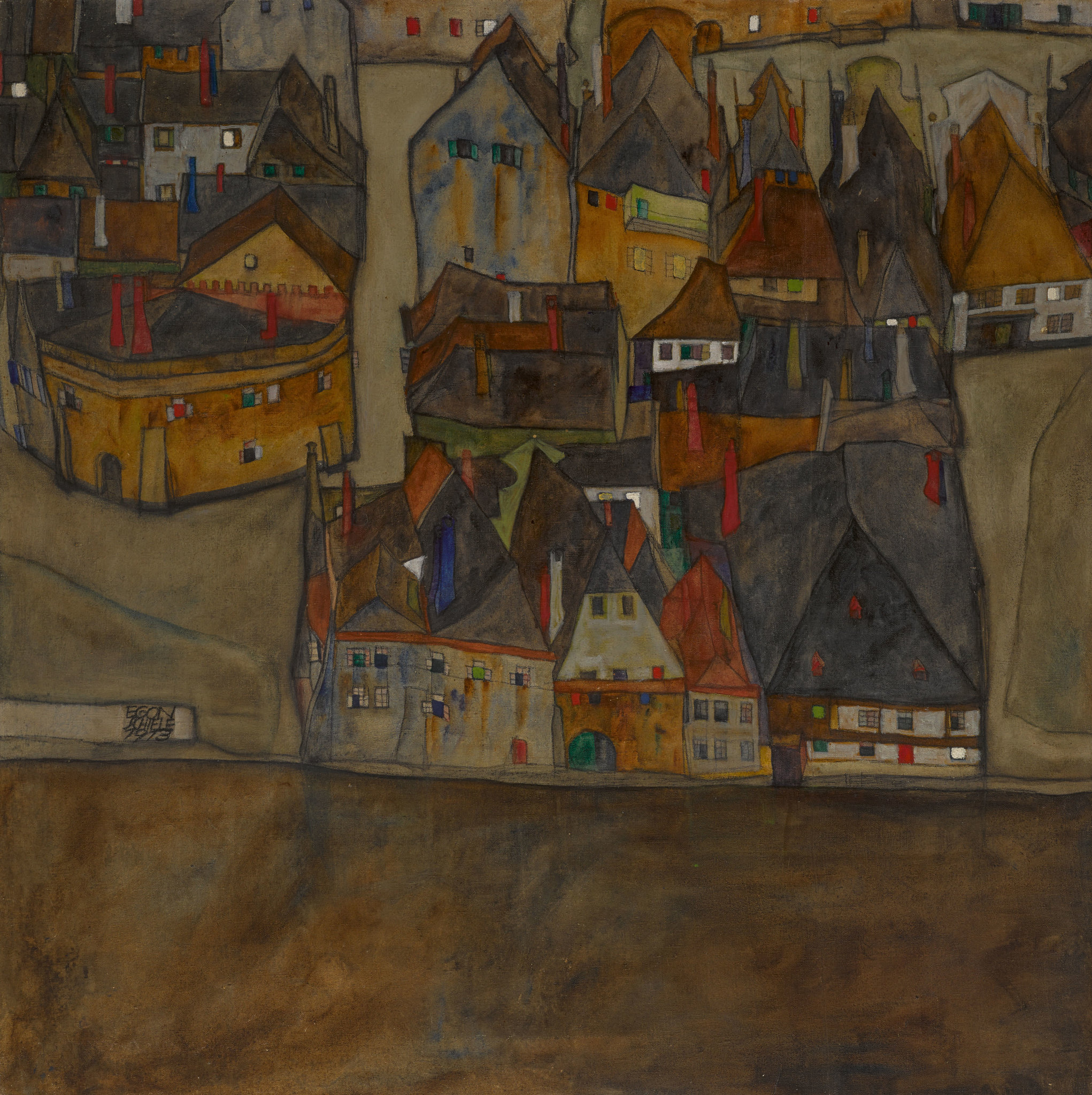 Dämmernde Stadt (Die Kleine Stadt II) (City in Twilight [The Small City II]) by Egon Schiele, 1913, oil and black crayon on canvas, 35 5/8 by 35 1/2 in. (90.5 by 90.1 cm)